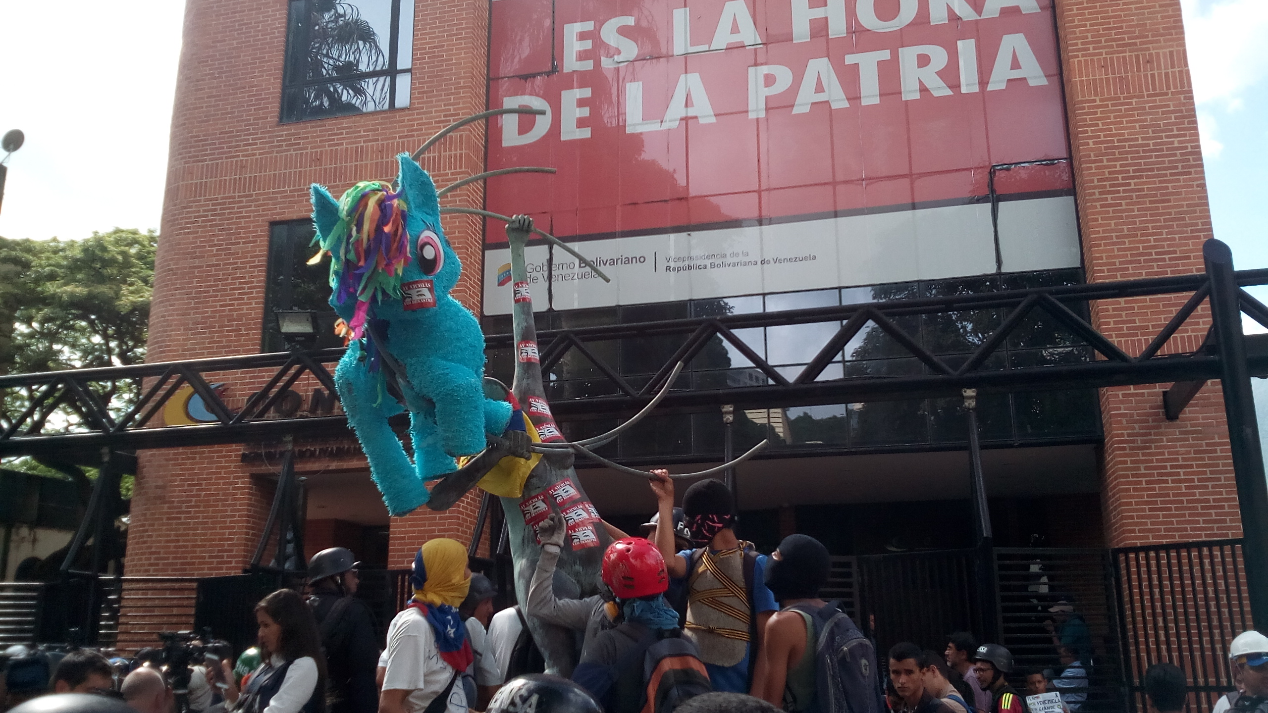 Protesters in the entrance of CONETEL on 9 June 2017 with a Rainbow Dash piñata